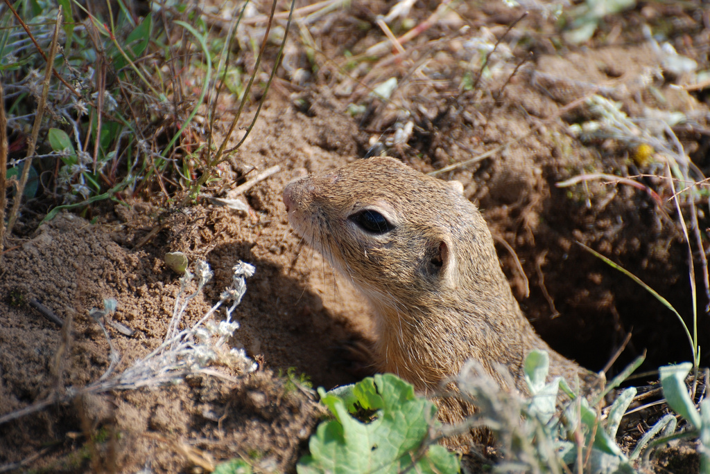 European ground squirrel (Spermophilus citellus) from Głębowice - Lower Silesian Voivodeship(Poland)